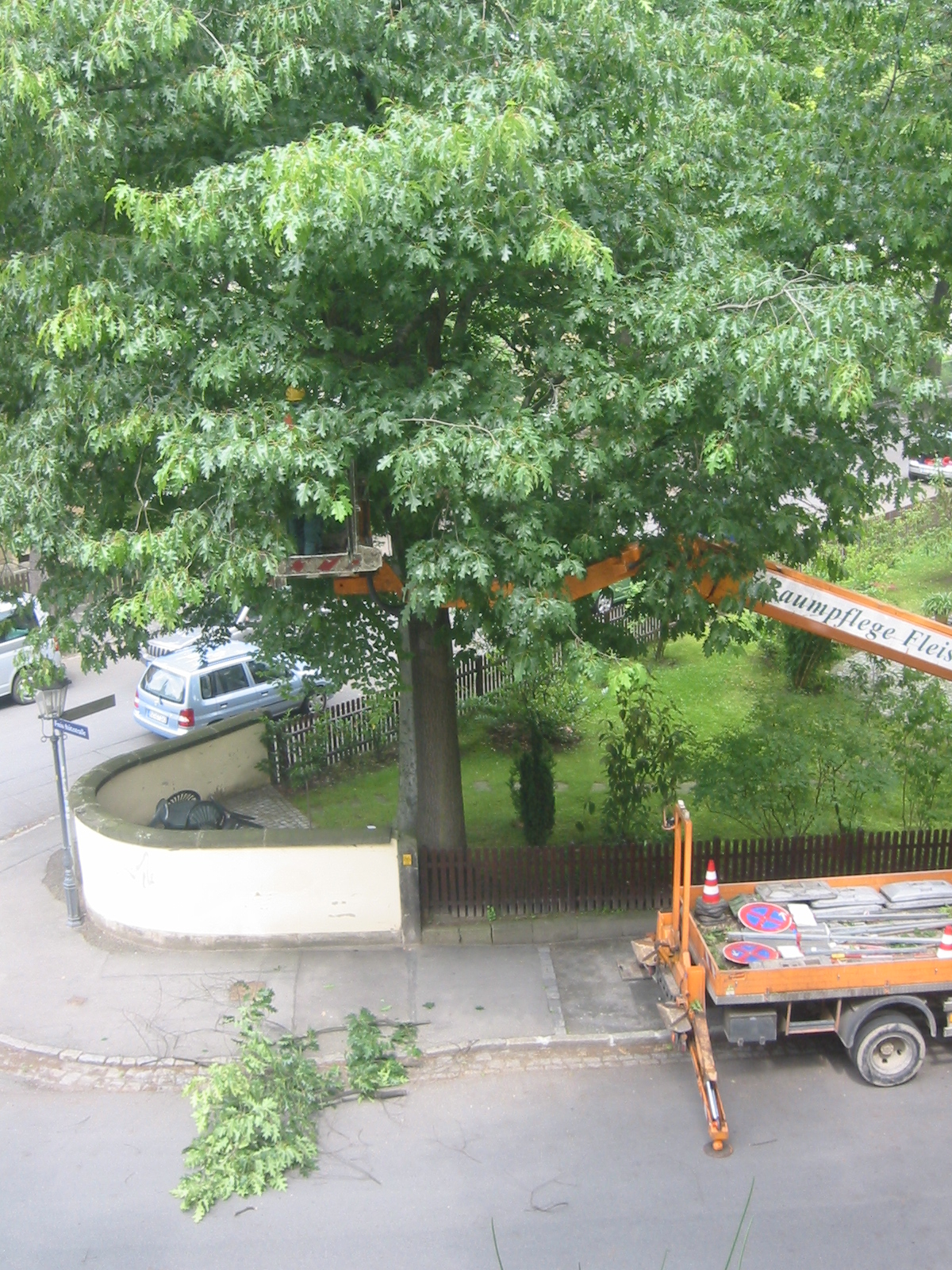 tree stage vehicle with a worker in a tree